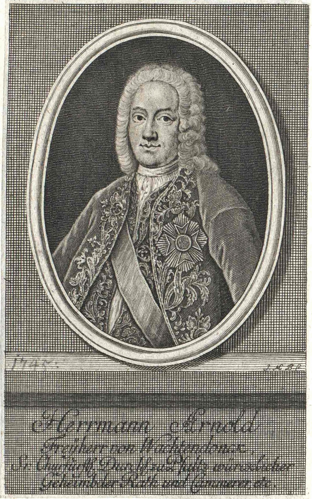 Hermann Arnold von Wachtendonk (1695-1768), kurpfälzischer Konferenzminister